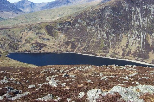 Llyn Cowlyd Reservoir from Creigiau Gleision Summit. A Westerly view of Llyn Cowlyd below from the summit of Creigiau Gleision at grid reference SH 72900 61542.